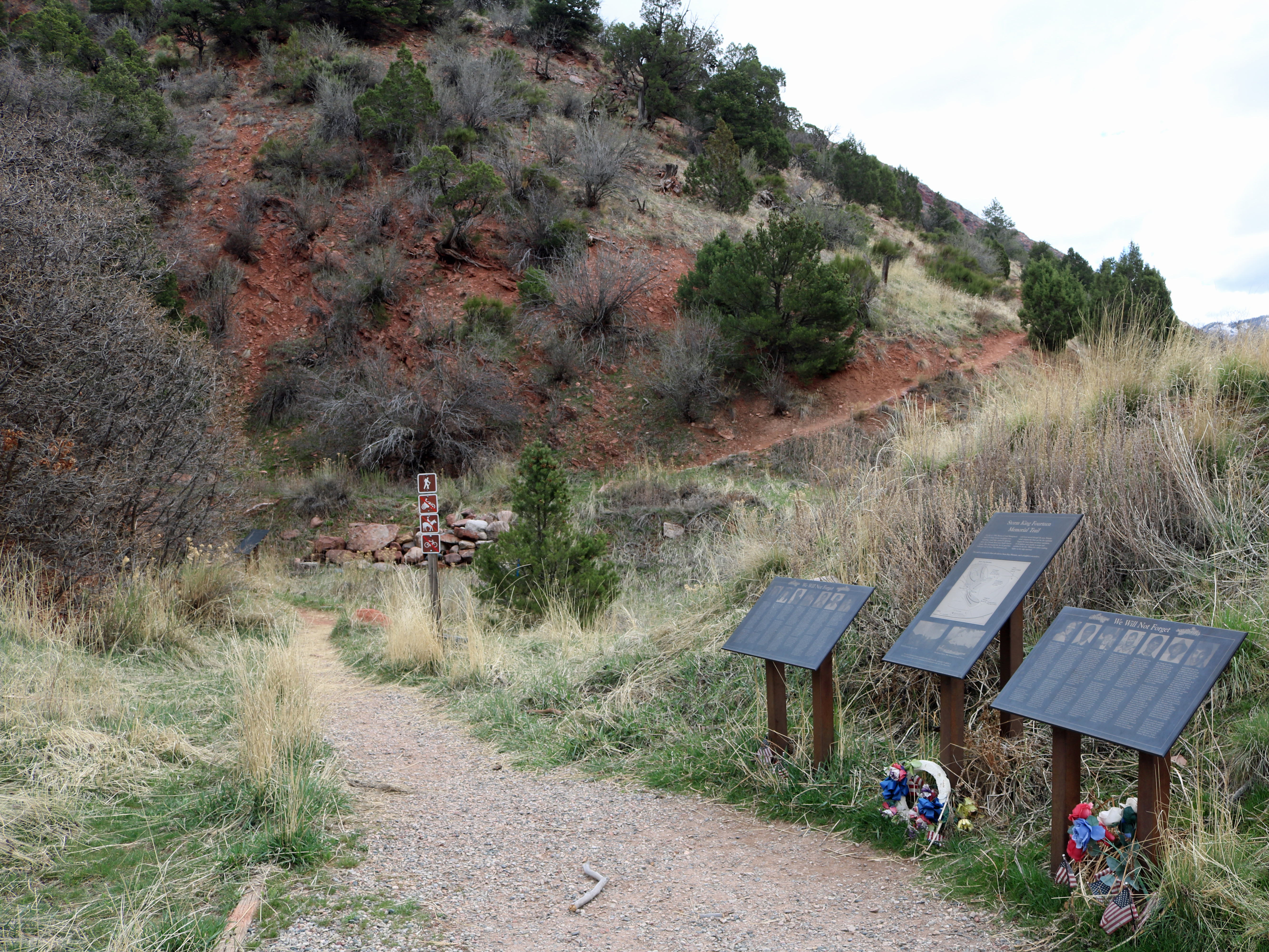 The beginning of the Storm King Mountain Memorial Trail near Chacra, Colorado in Garfield County.